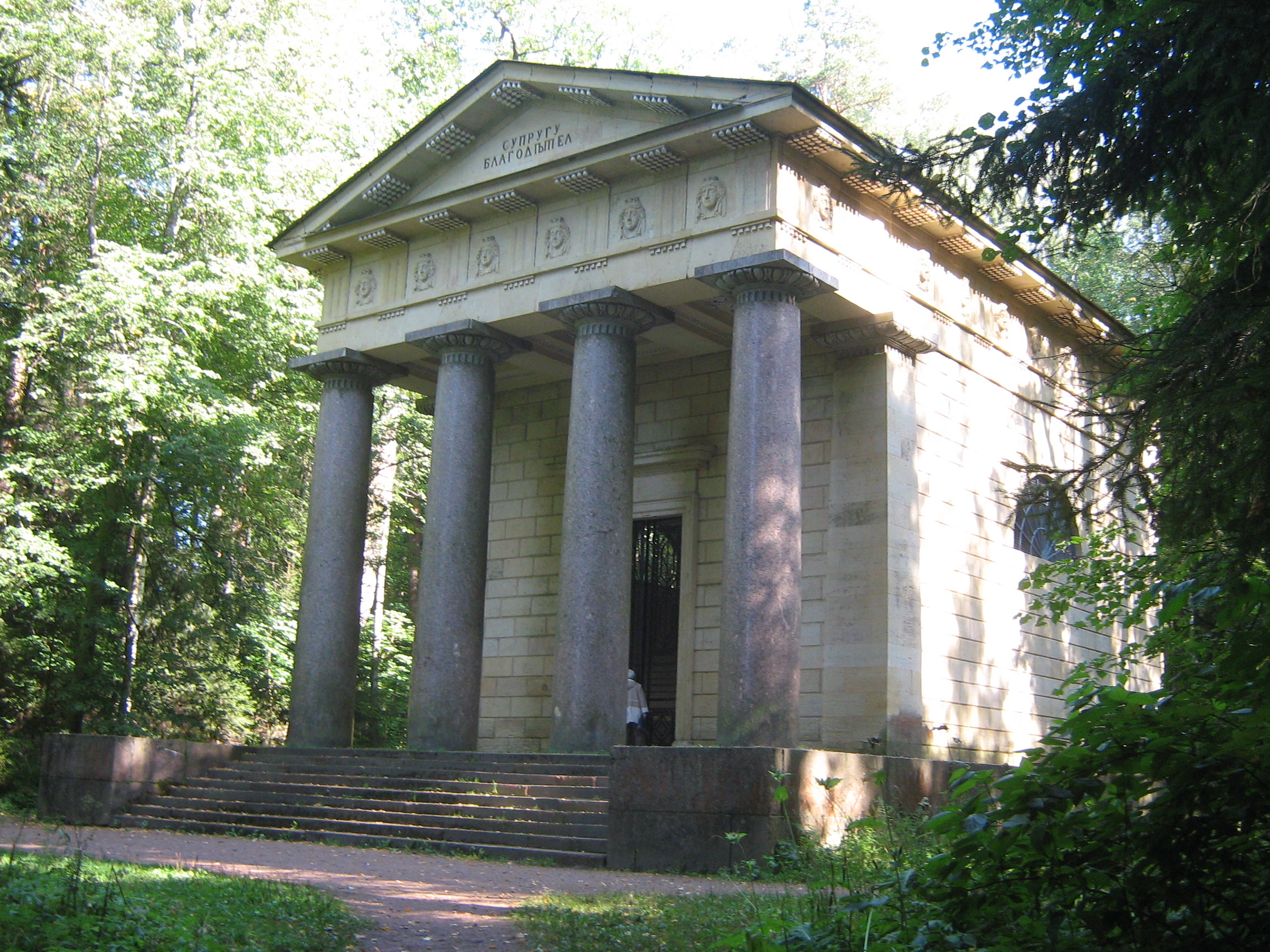 Pavlovsk (Russia)